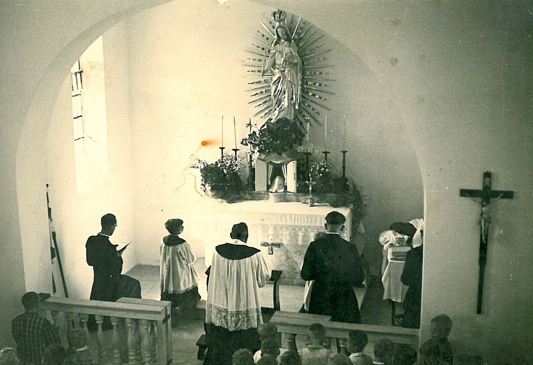 historic view of Laibarös, part of the municipality of Königsfeld